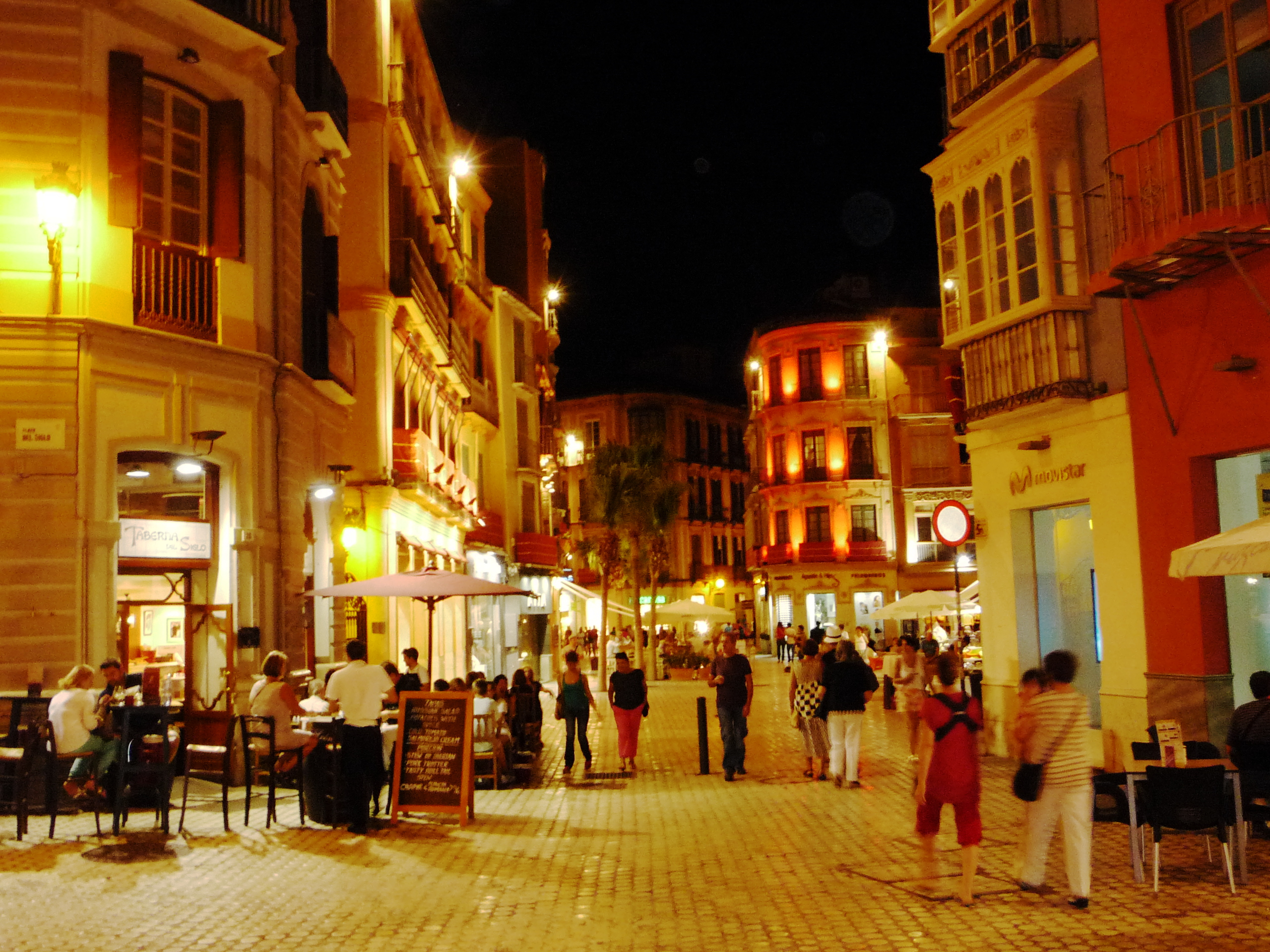 Old town, Malaga, Spain.